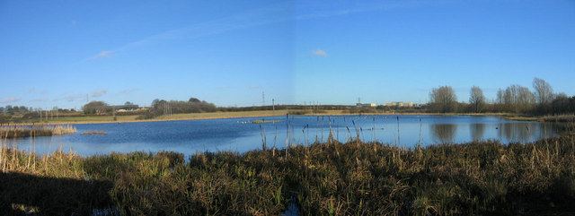 Swallow Pond, Rising Sun Narure Reserve